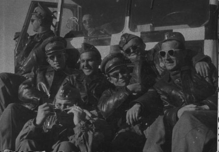 Kadra 64.LPS na lotnisku, 1958